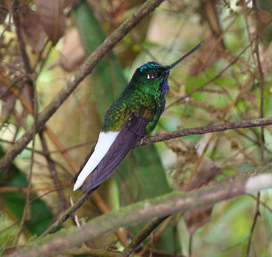 The White-tailed Starfrontlet is confined to the Santa Marta Mountains of northeastern Colombia. Photo from the El Dorado Reserve. In context at